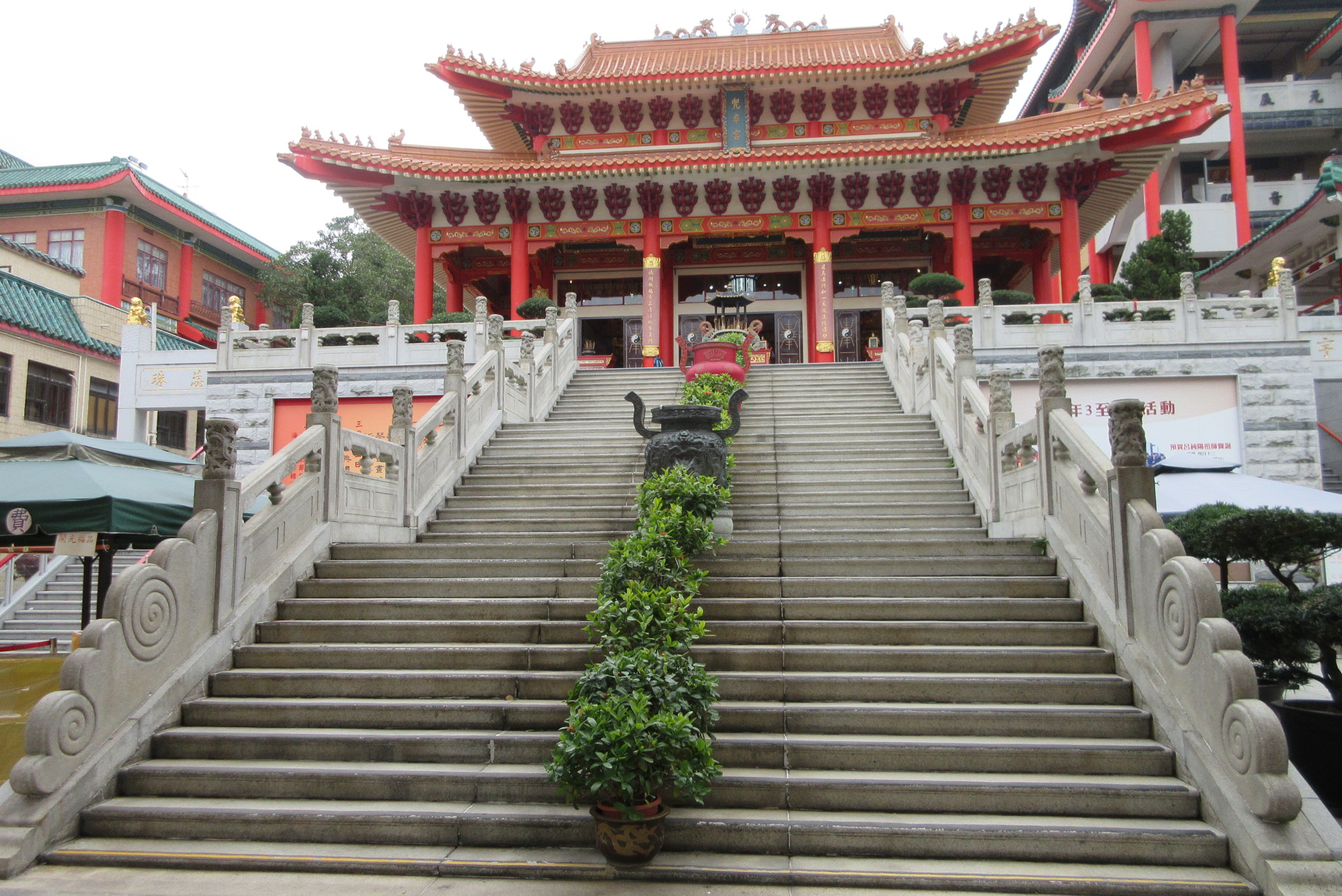 HK 粉嶺 Fanling 蓬瀛仙館 Fung Ying Sen Koon temple outdoor stairs n main hall in March 2017